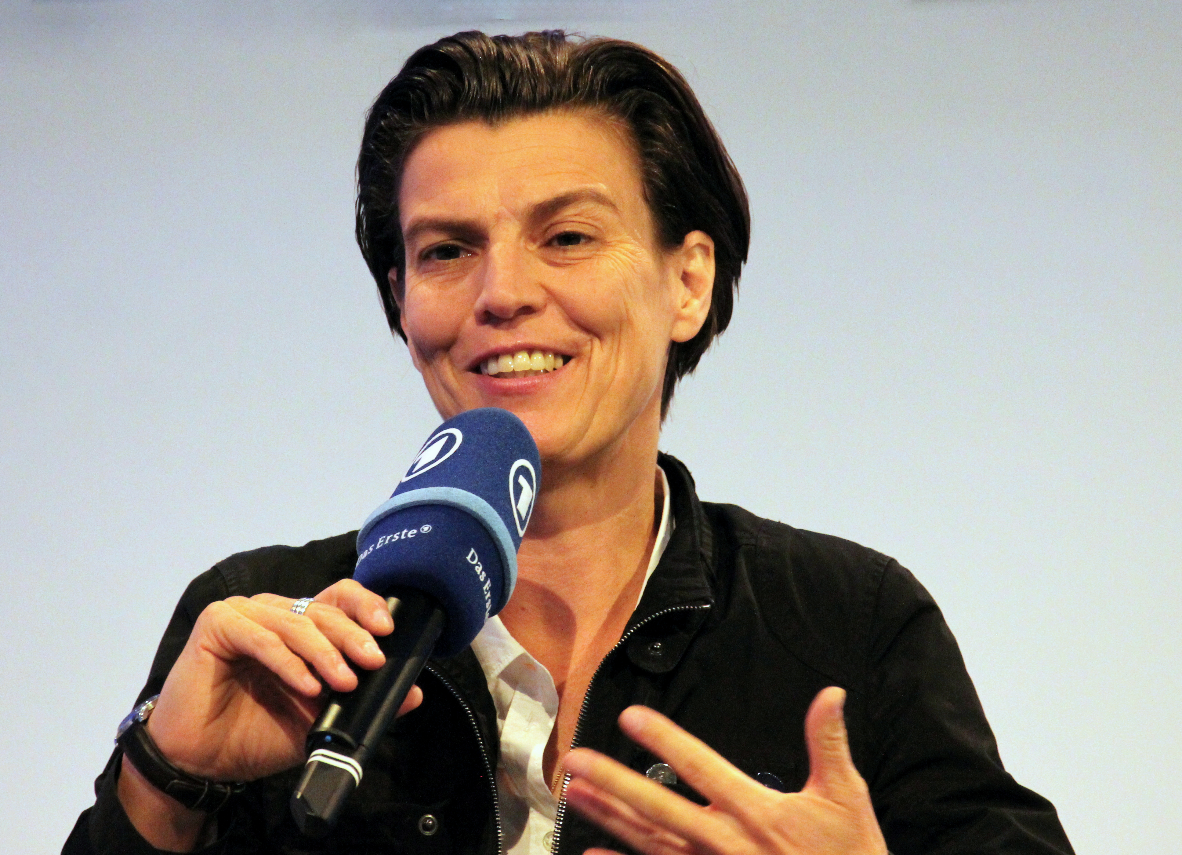 Carolin Emcke Frankfurt Book Fair 2016